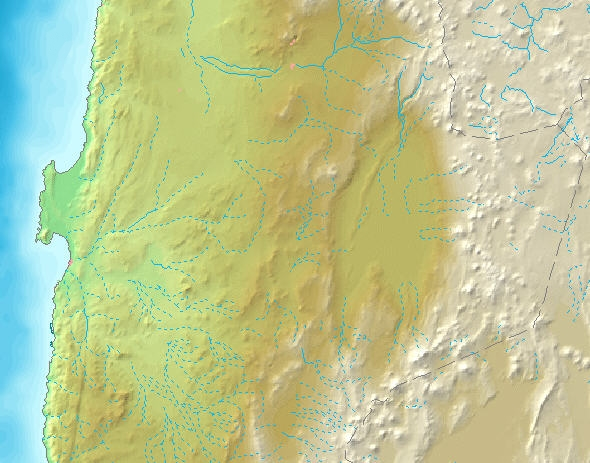 Relief map of Antofagasta region, Chile